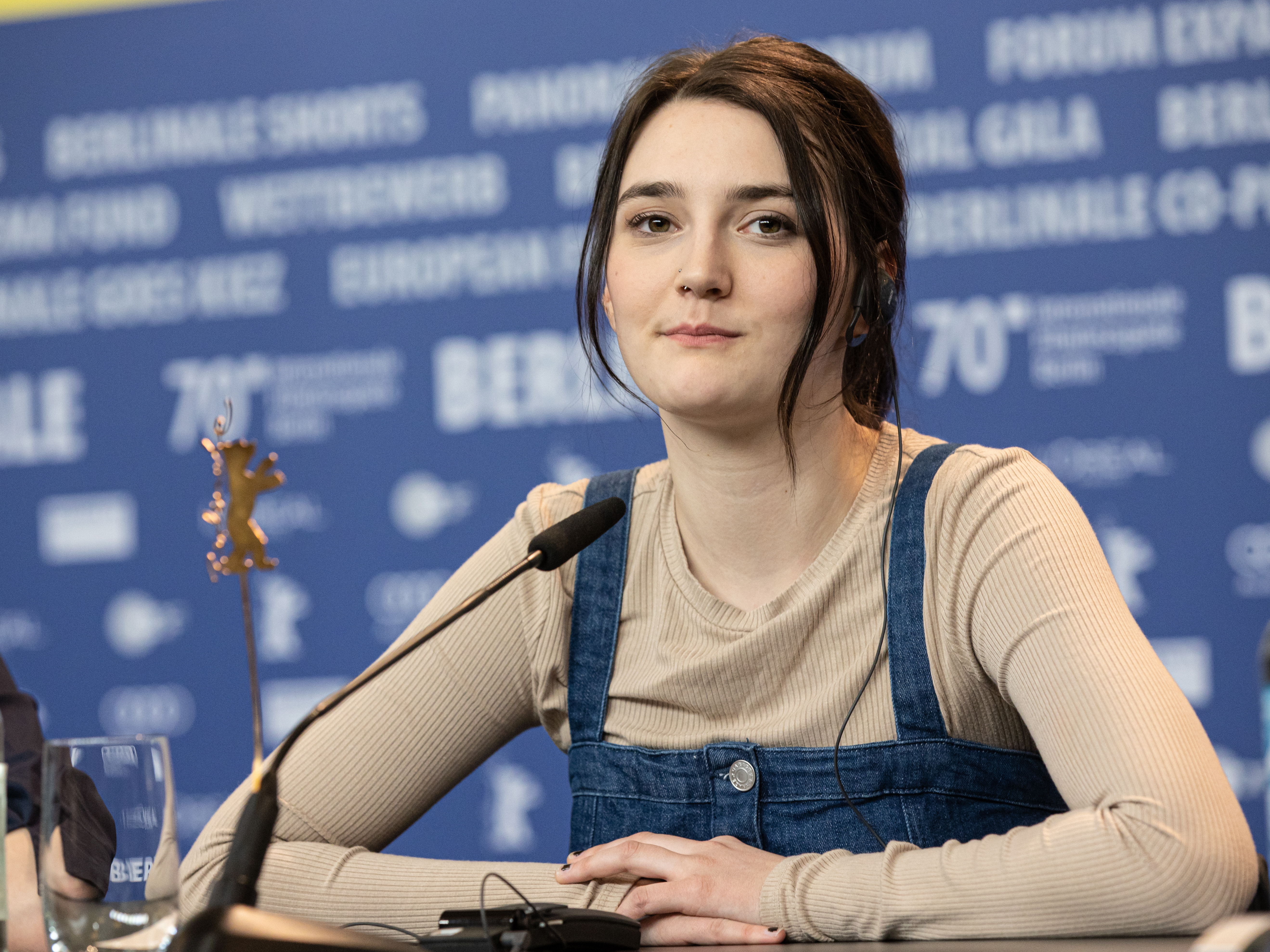 Actress Sidney Flanigan at the Berlinale 2020